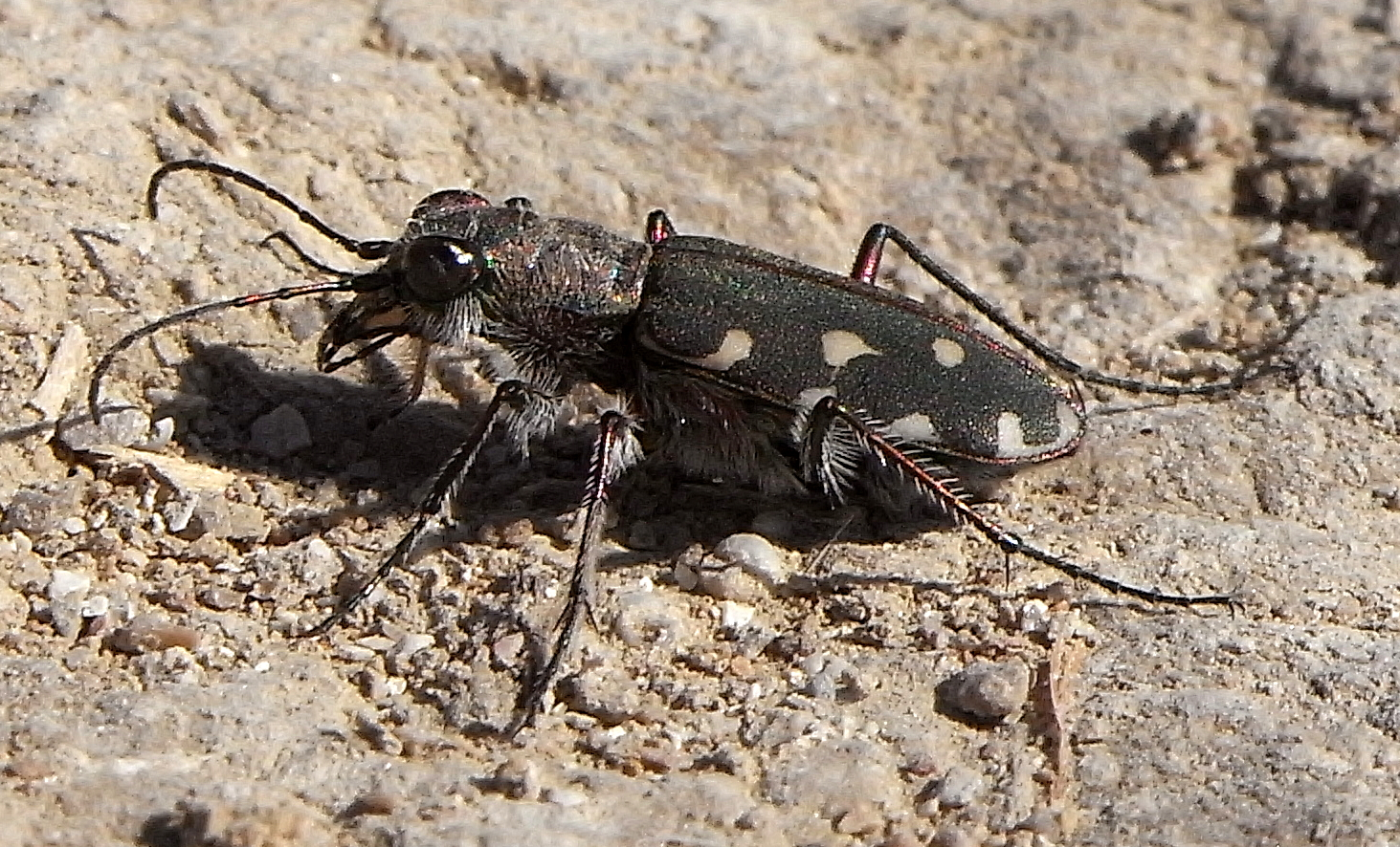 Calomera littoralis nemoralis (Olivier, 1790) from Southern France, southwest of Montpellier at 2008-10-04